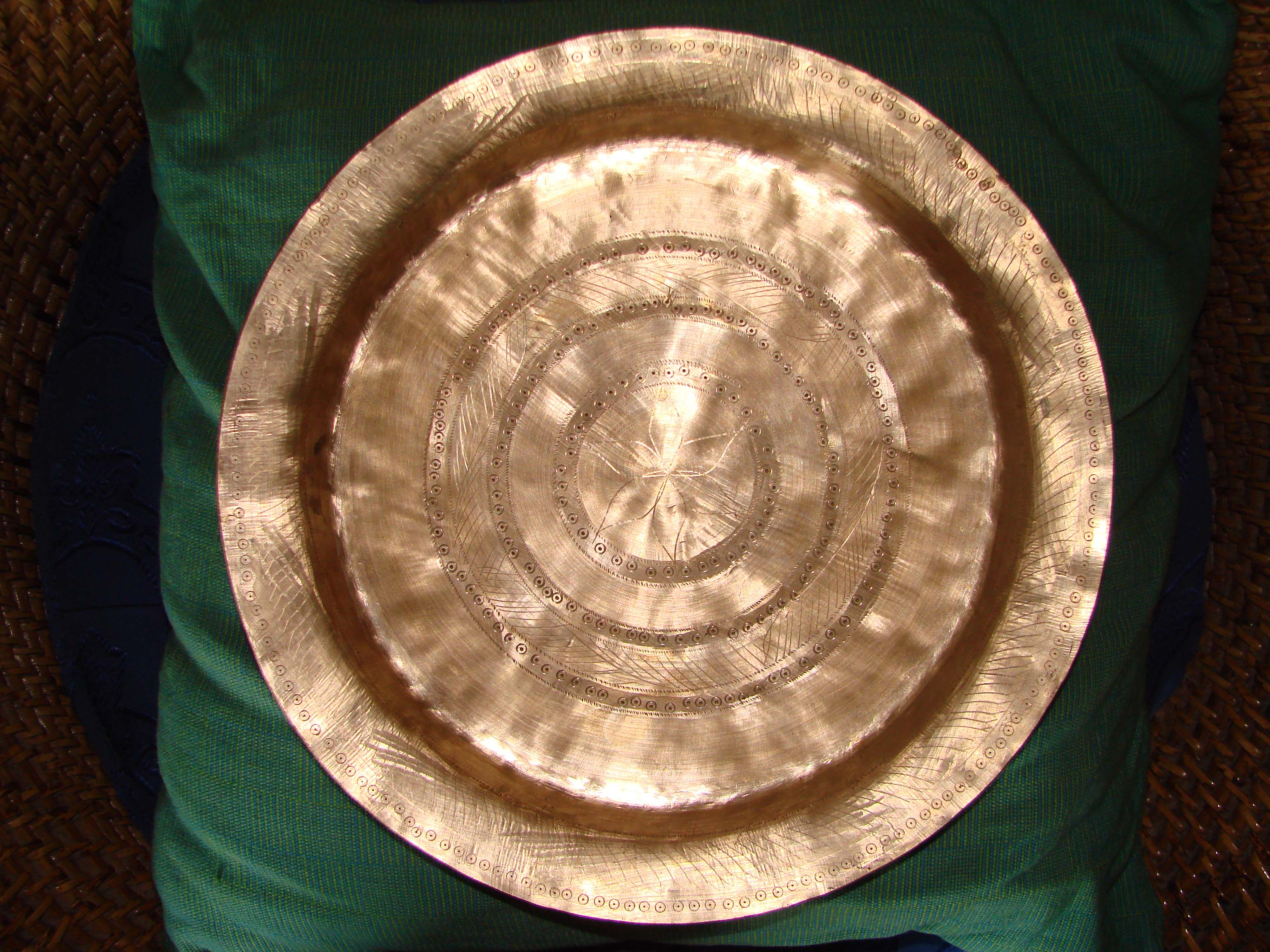 A traditional brass metal dish from Assam.